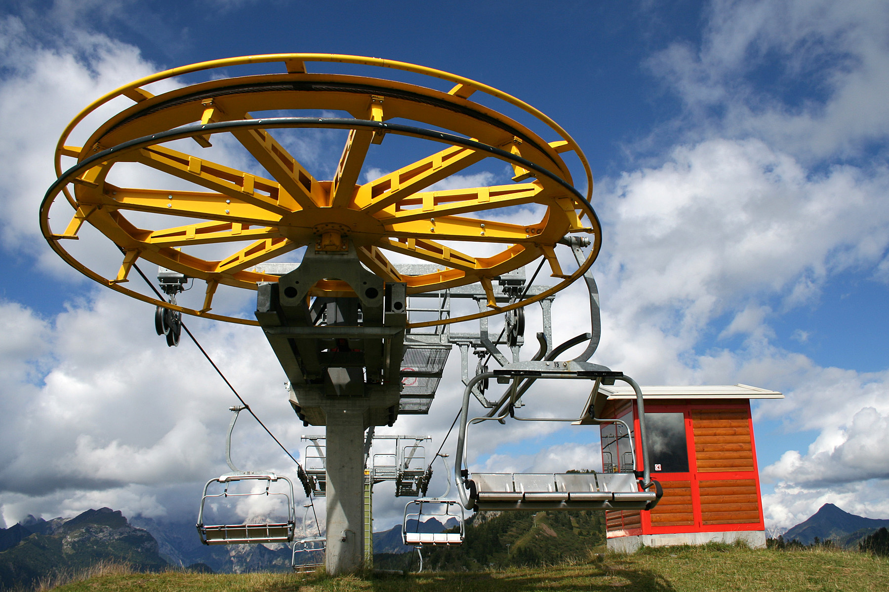 The return bullwheel of the chairlift of Col dei Baldi, Alleghe, Italy.